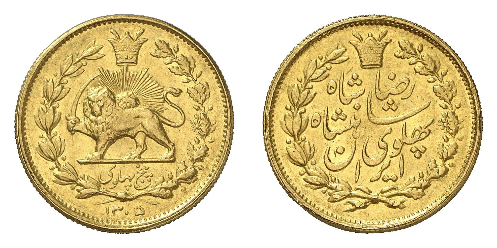 5 Pahlavi - Iranian Golden coin - 1926 Reza shah Pahlavi